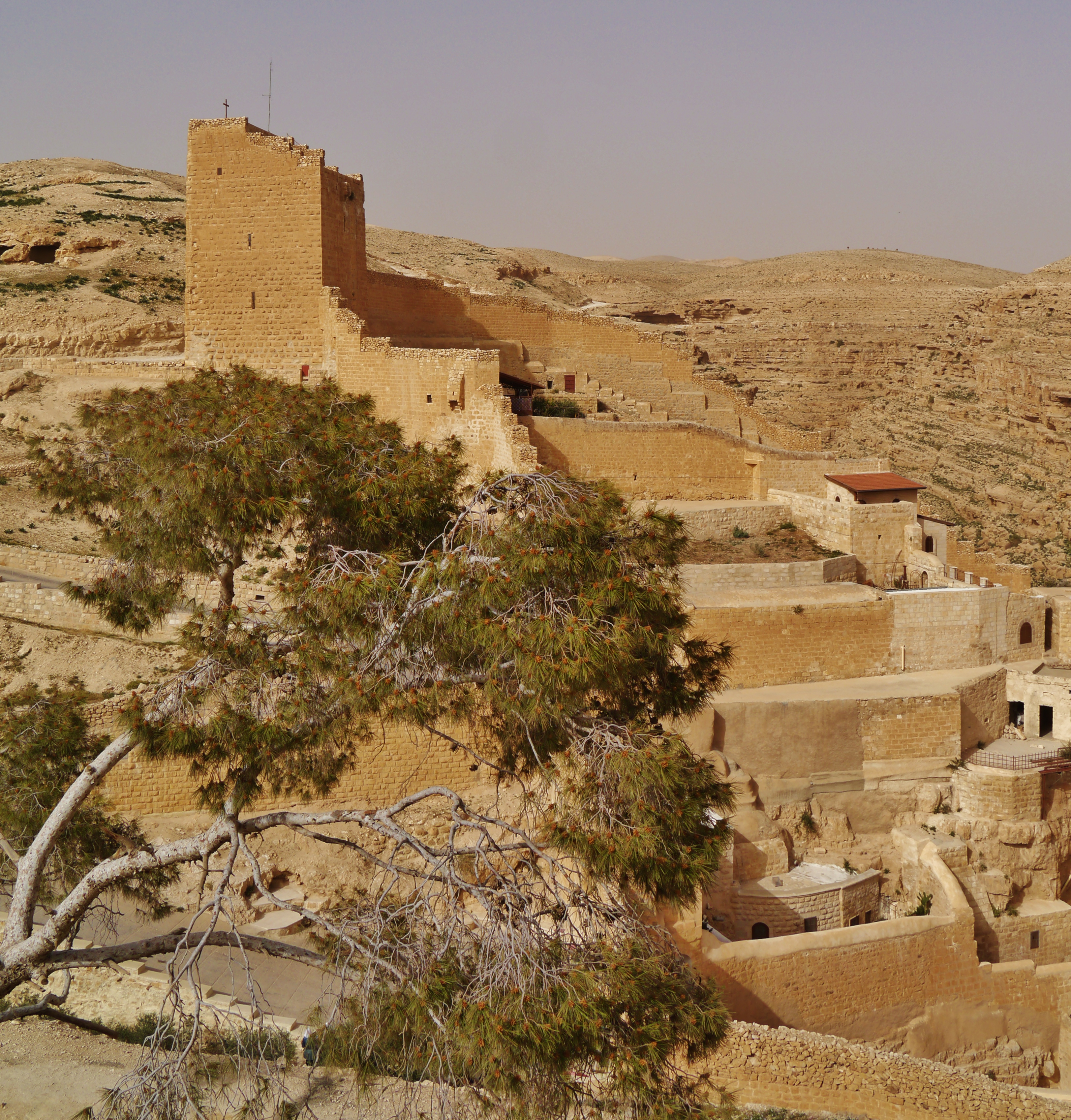 Mar Saba Monastery at the Judean Desert, Palestine